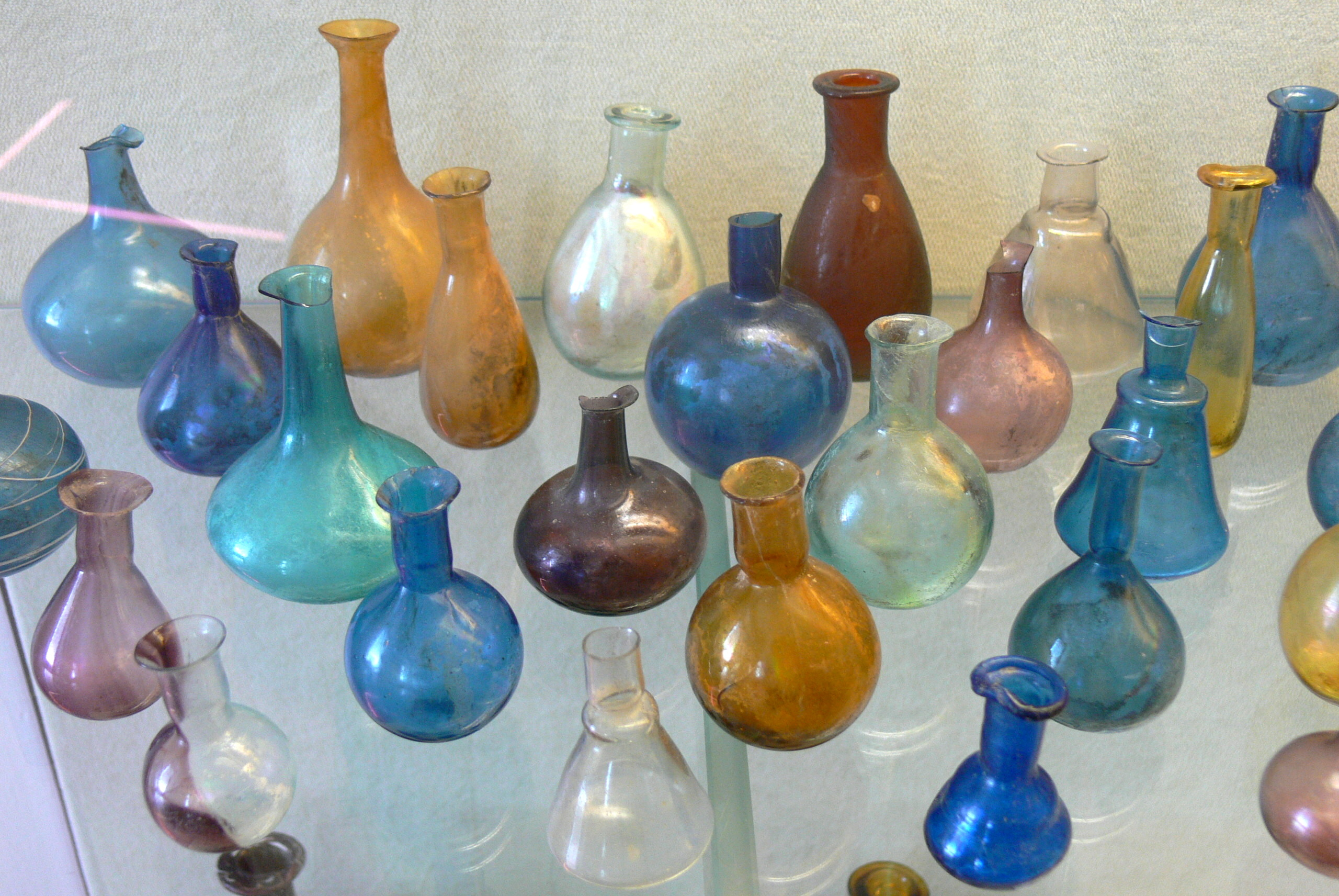 Archeological museum, Aquileia. Ancient Roman glassware.